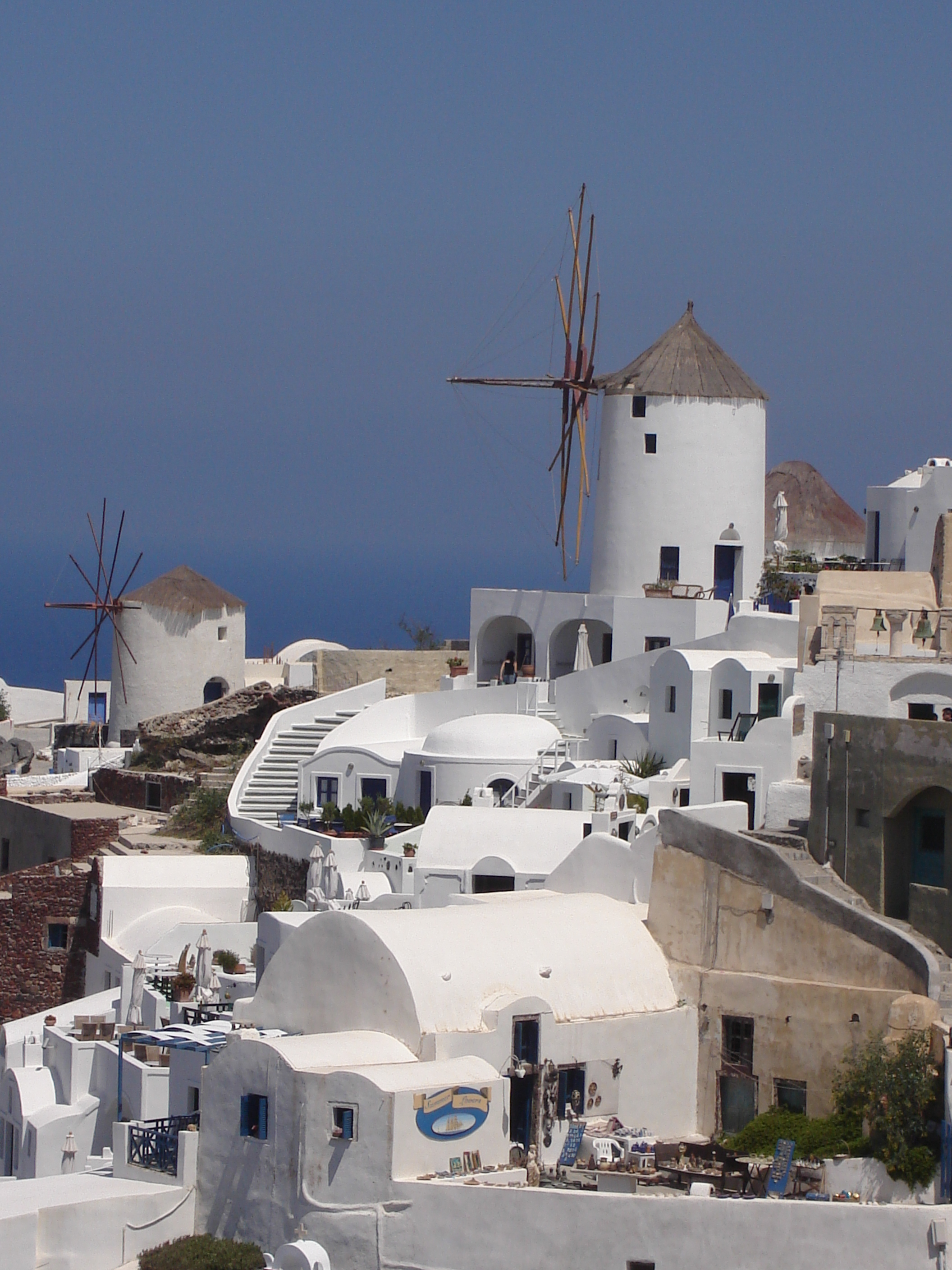 Santorini windmills